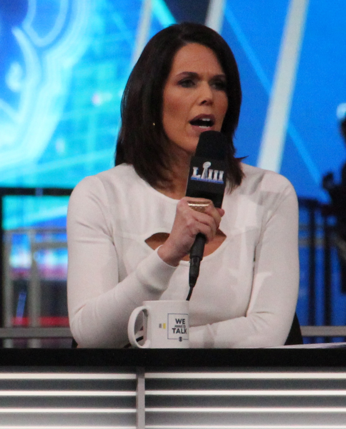 Dana Jacobson at the Super Bowl Experience at Super Bowl LIII